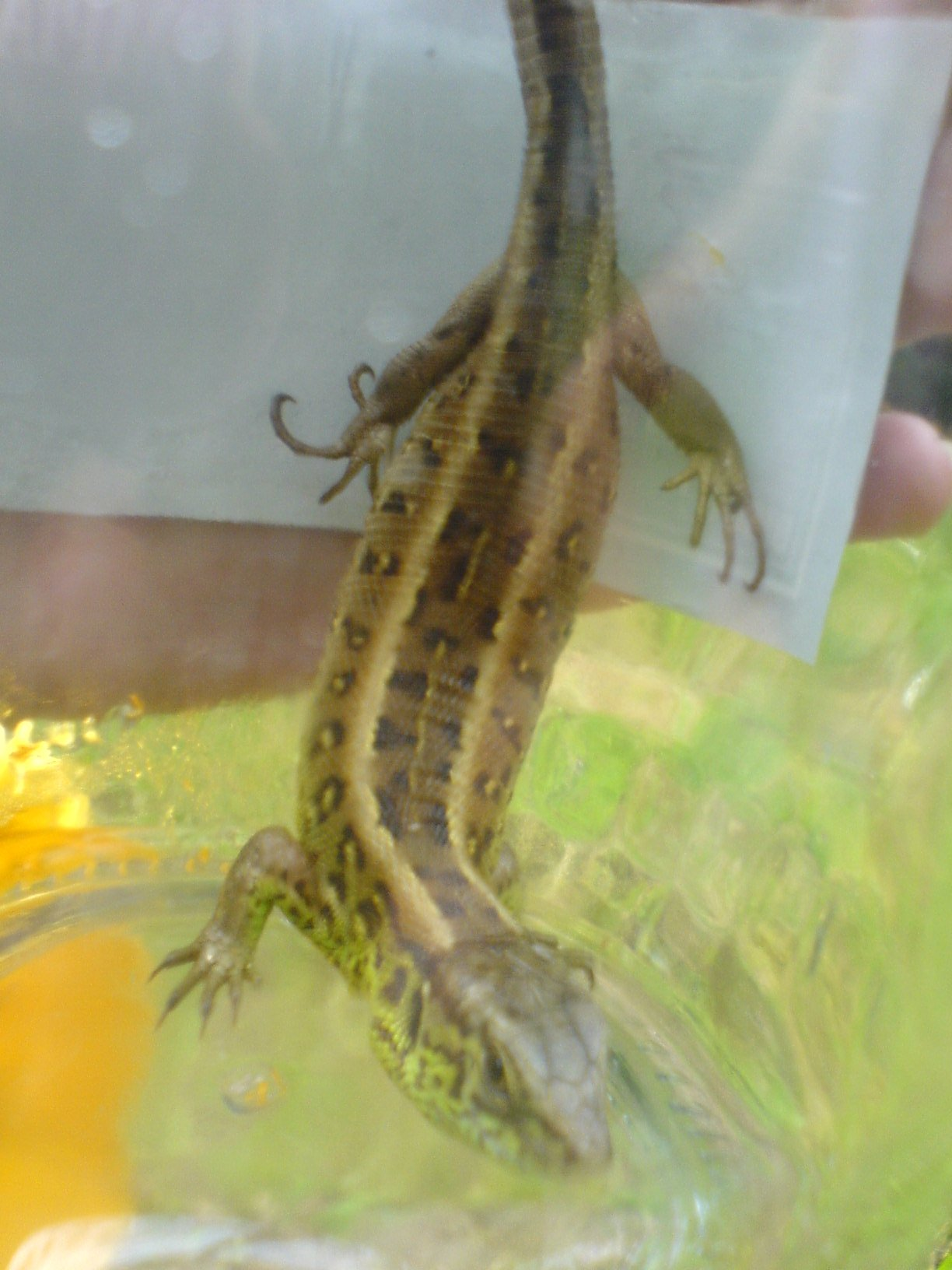 Sand lizard (Lacerta agilis) in Marosillye, Hunyad county, Transylvania.